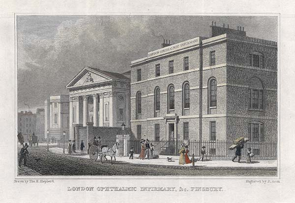 An antique line engraving by R. Acon after Thomas H. Shepherd. Published in 1829. The colouring is later. Approx 14.5cms by 9.5cms.